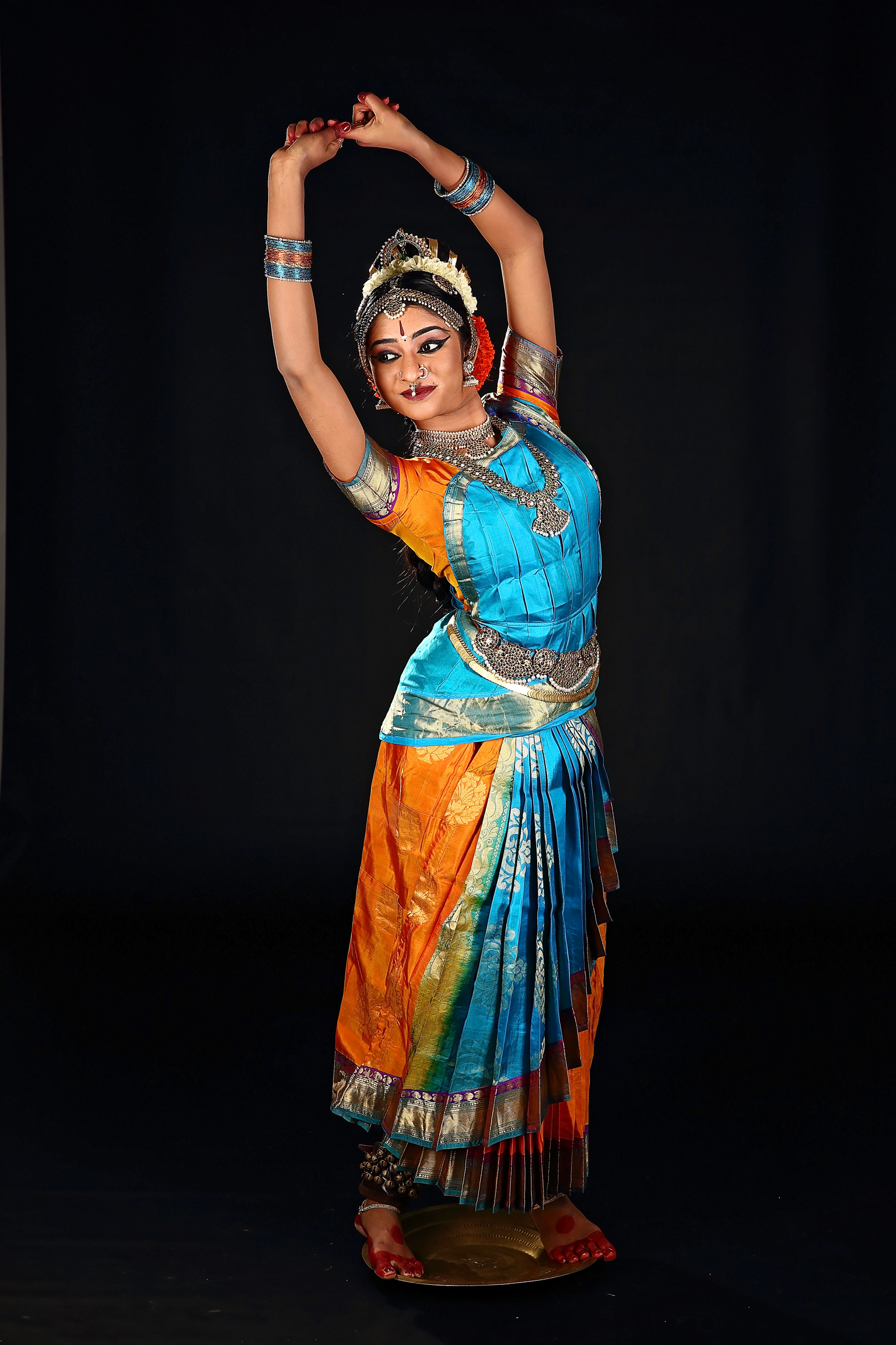 Tharangam a type of Kuchipudi Dance